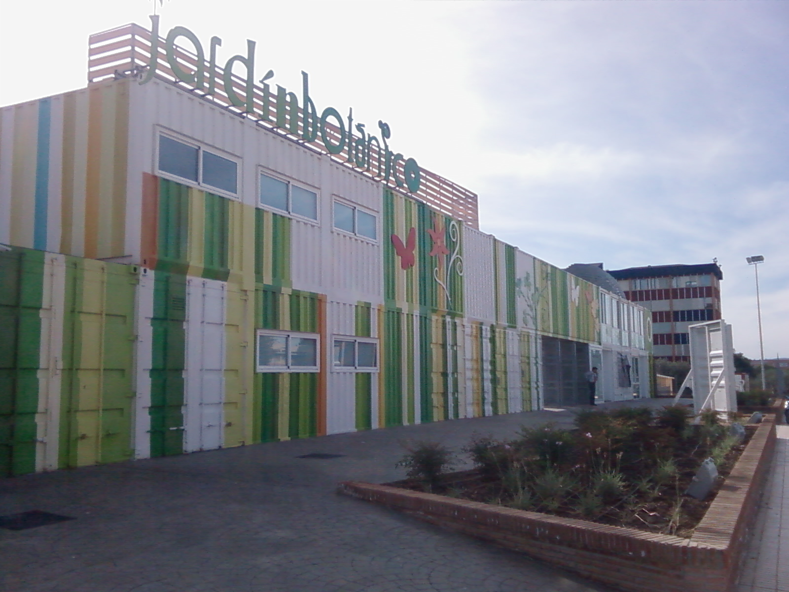 Botanical Garden, University of Málaga, Spain